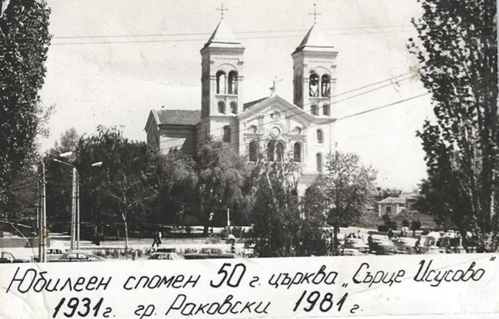 Anniversary photo of the Church of the Sacred Heart of Jesus in Rakovski